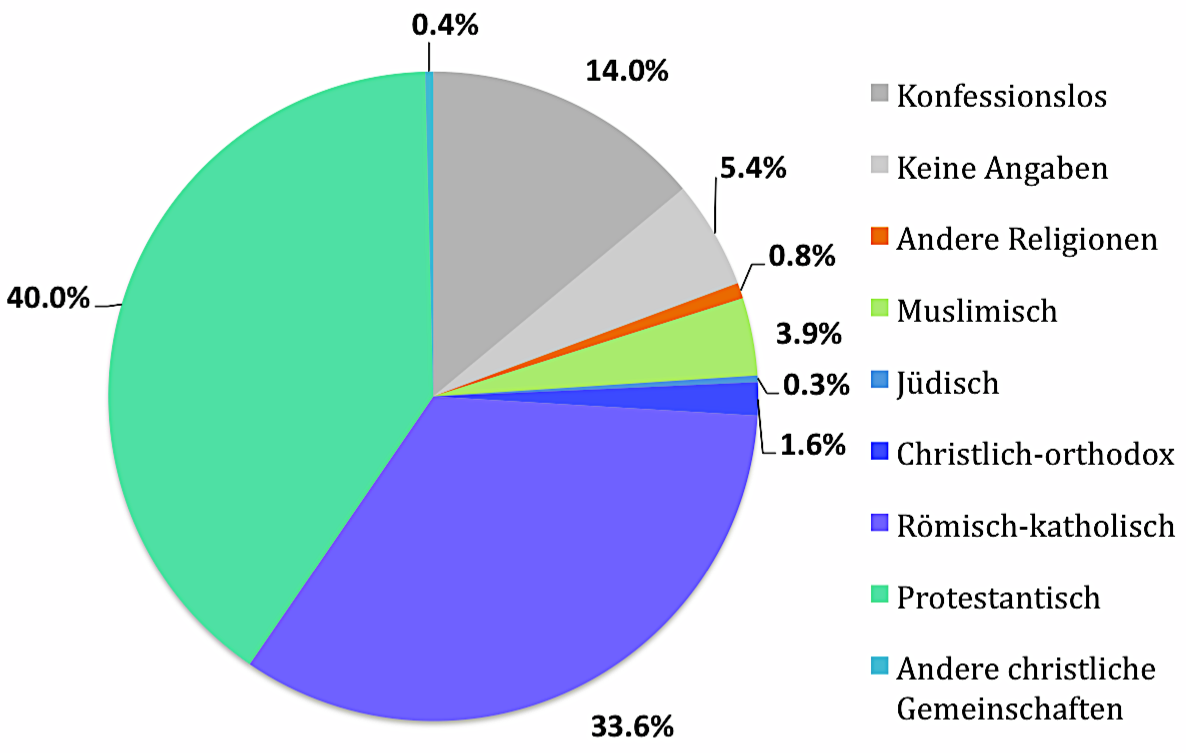 Religionszugehörigkeit der Bevölkerung im Kanton Waadt